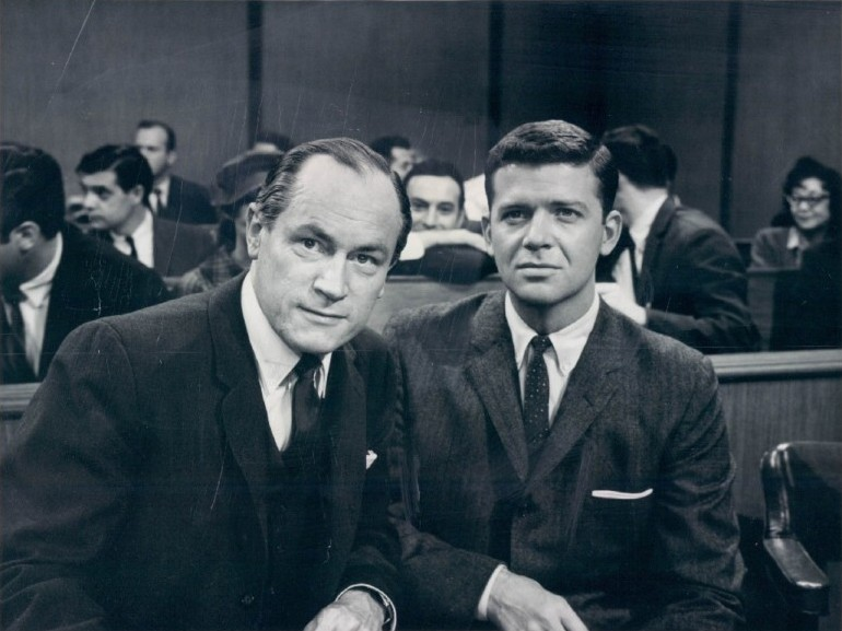 Publicity photo of The Defenders. The cast in this photo are E. G. Marshall and Robert Reed.